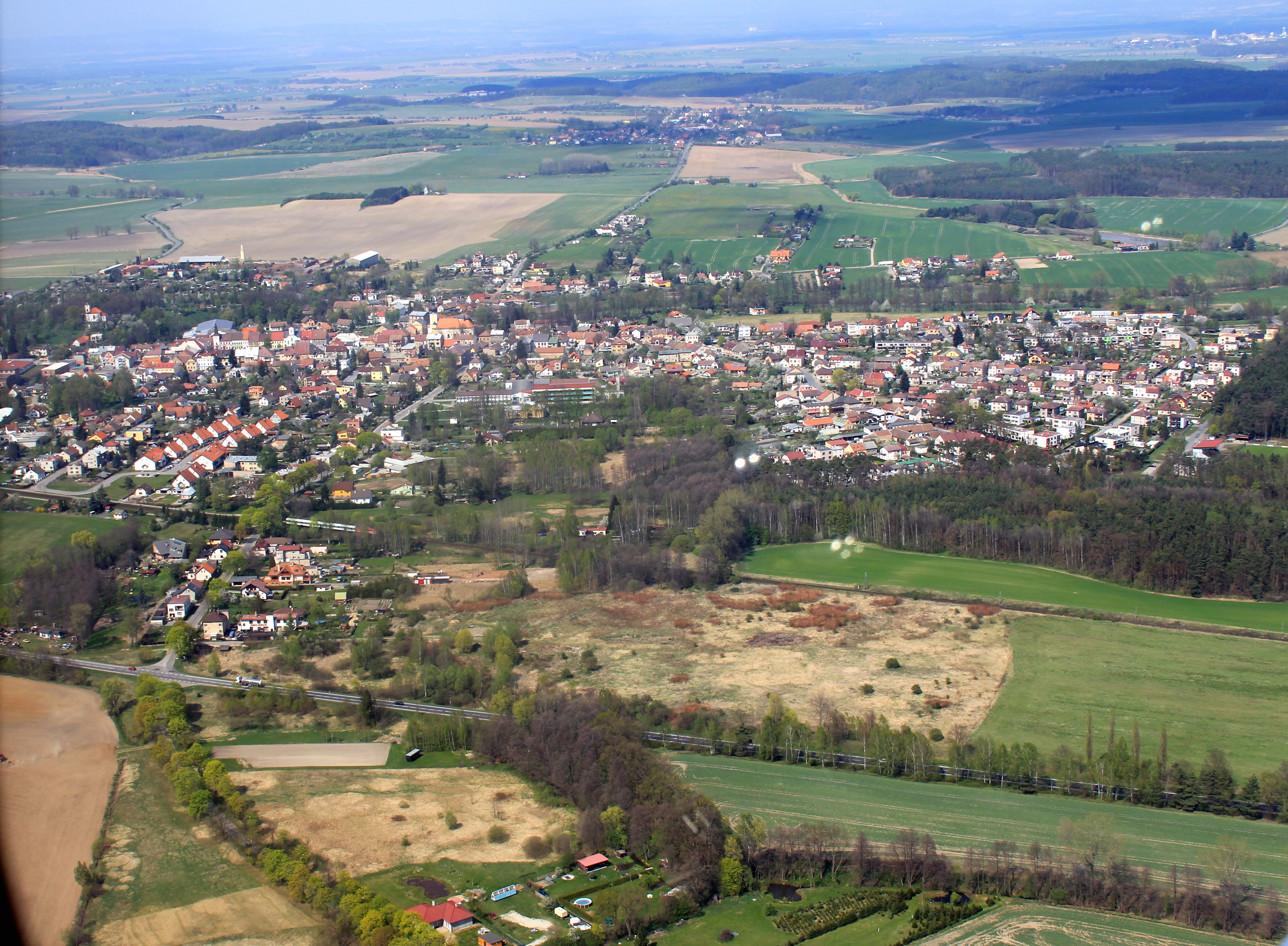 Town Třebechovice pod Orebem from air, eastern Bohemia, Czech Republic